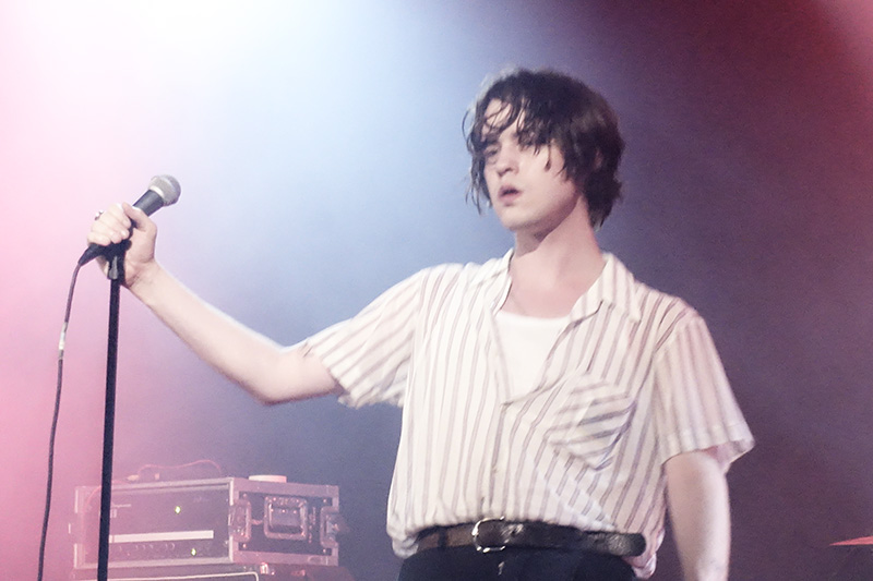 Elias Bender Rønnenfelt with Iceage in Aarhus 2016